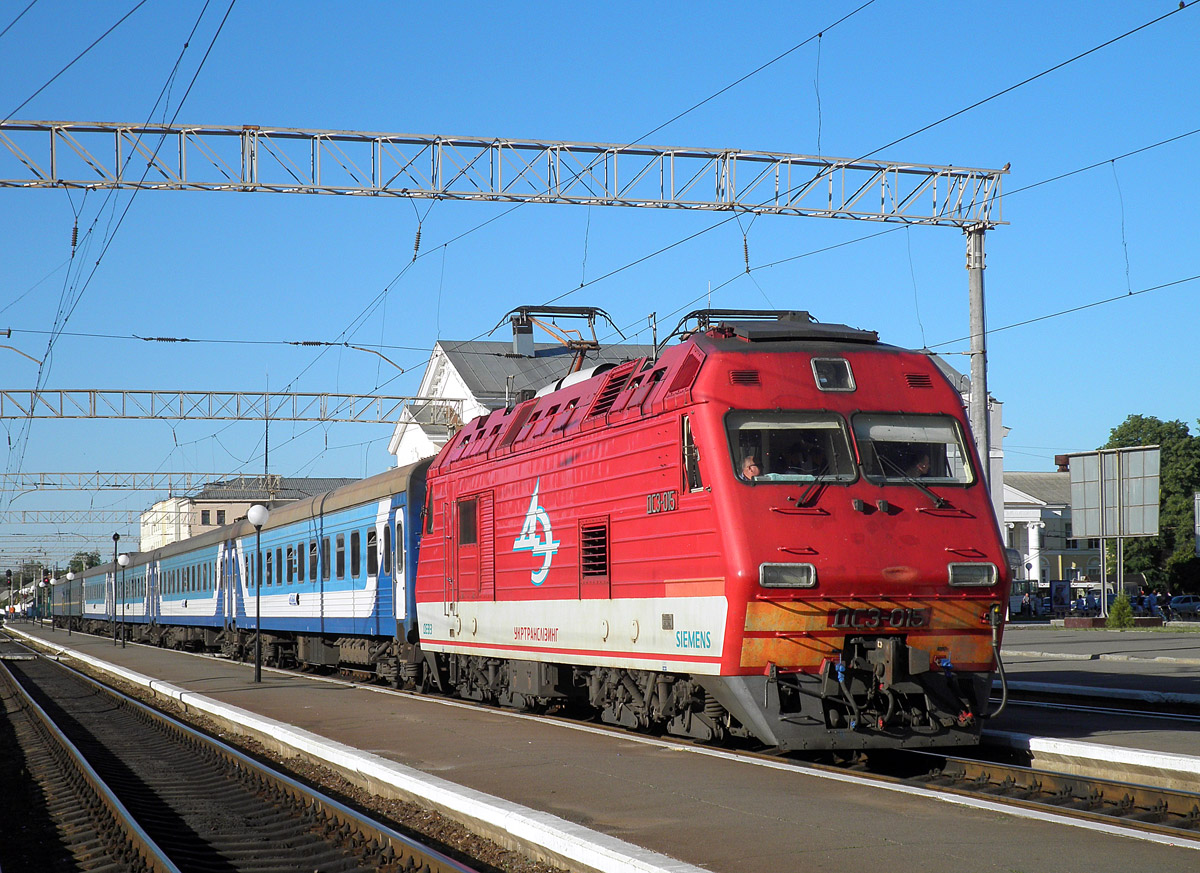 Electric locomotive DS3-015 with passenger train Poltava - Kiev, Poltava South station, 2011